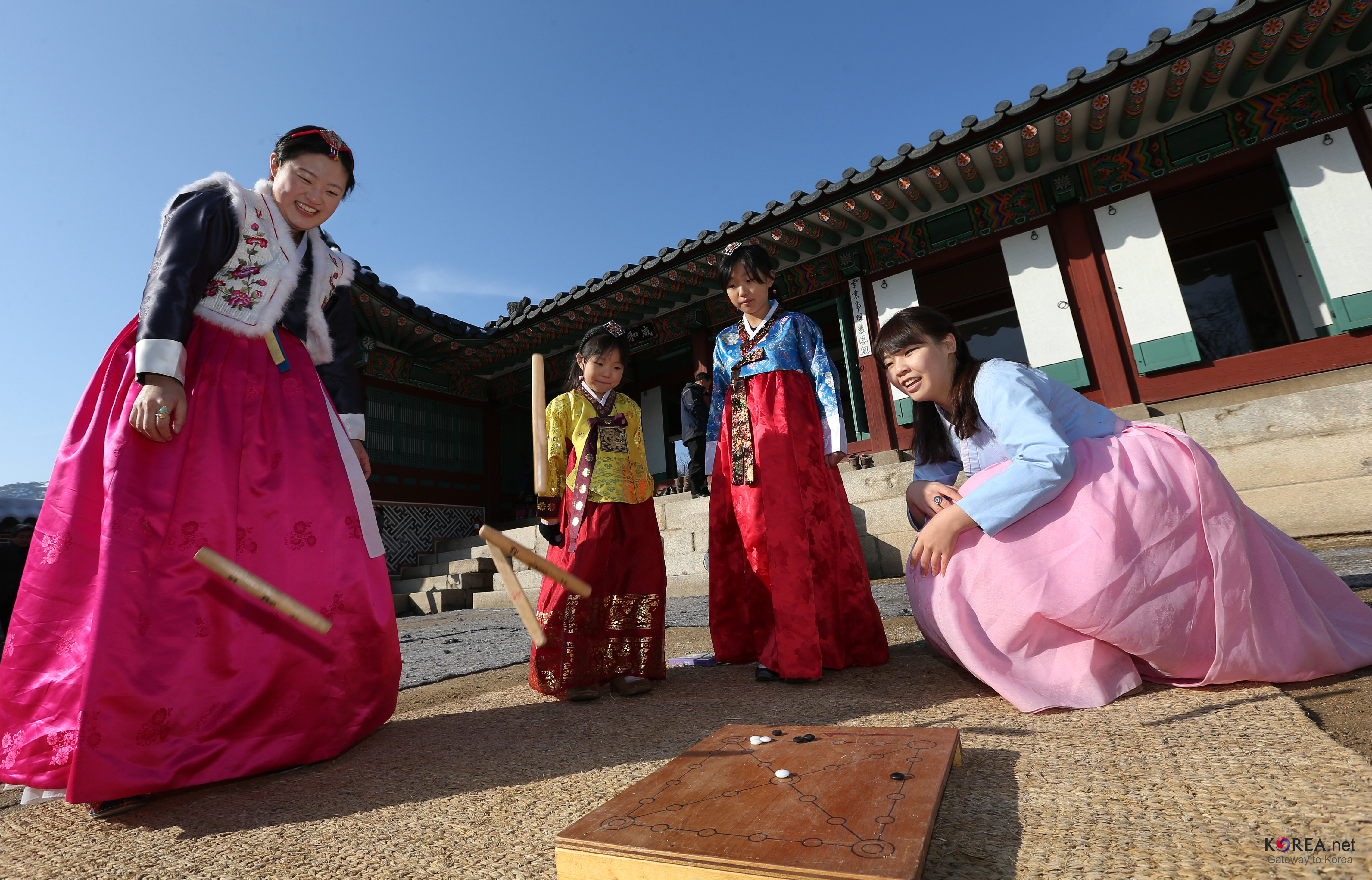 2013 Seollal Sketch National Folk Museum, Seoul 2013.02.11. Ministry of Culture, Sports and Tourism Korean Culture and Information Service Jeon Han (Related Article) Seollal seasoned with traditional foods and folk games 2013년 설날 스케치 국립민속박물관, 서울 문화체육관광부 해외문화홍보원 코리아넷 전한